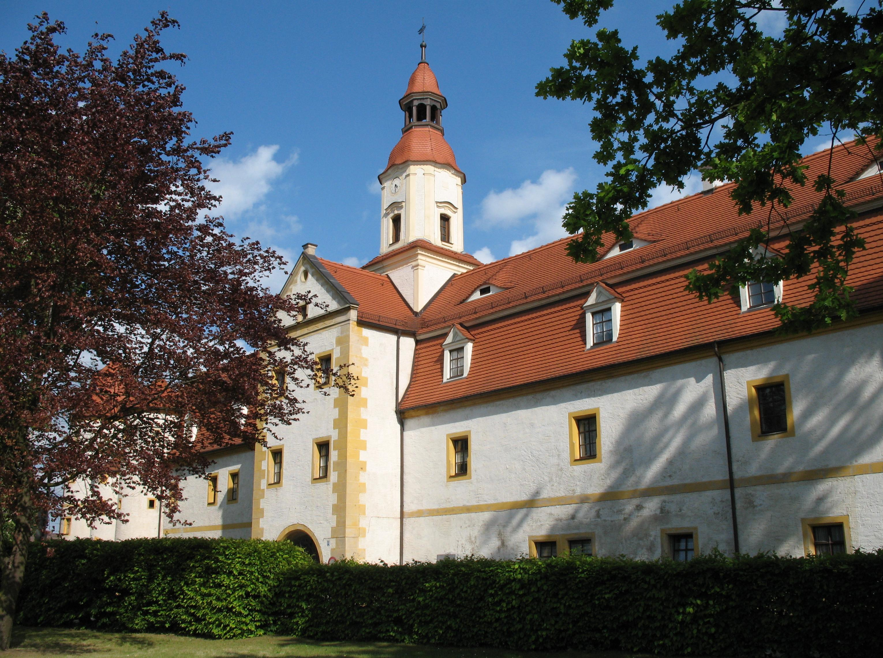 Castle in Annaburg in Saxony-Anhalt, Germany